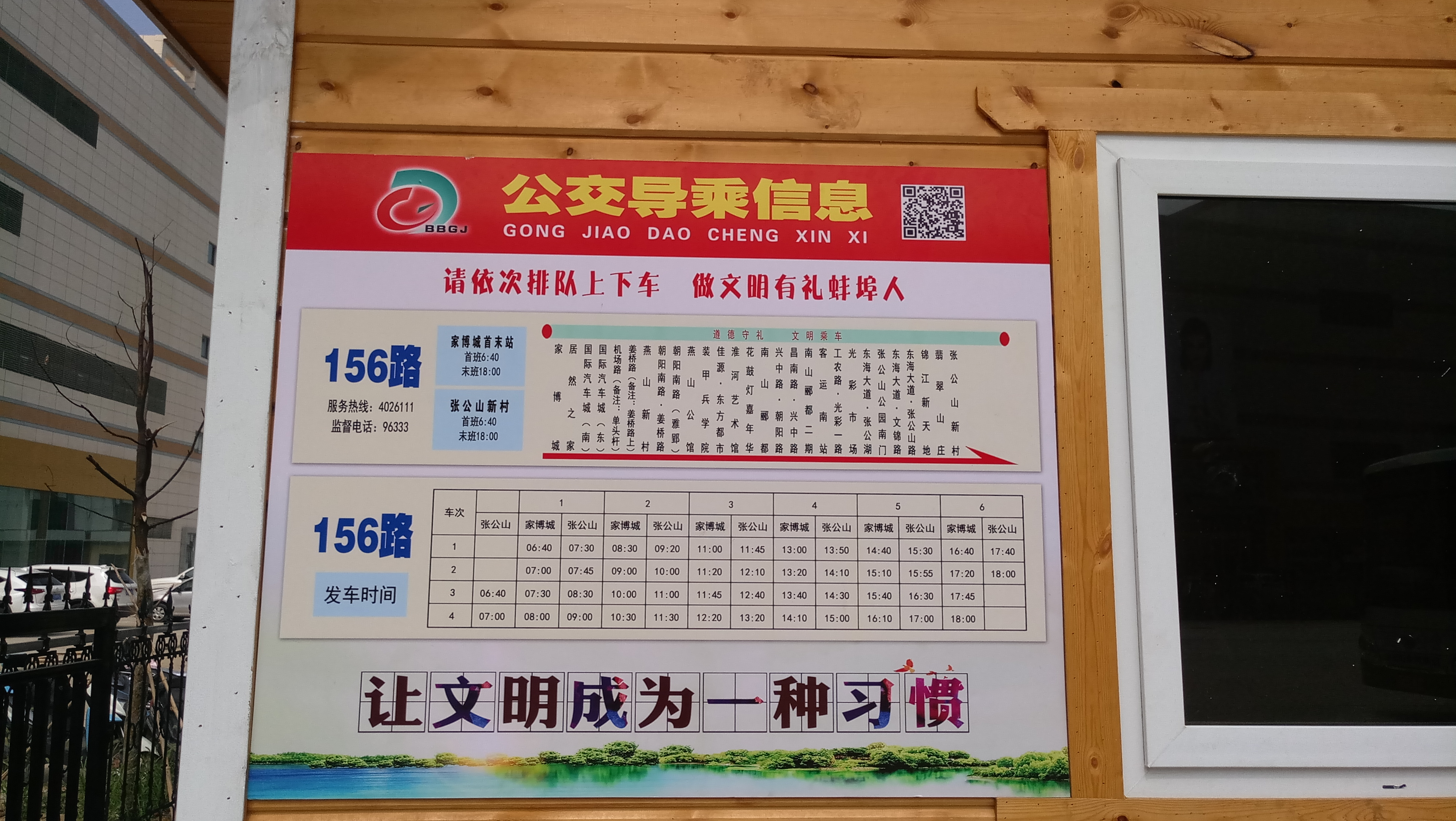 Bengbu Bus No.156 Information Board